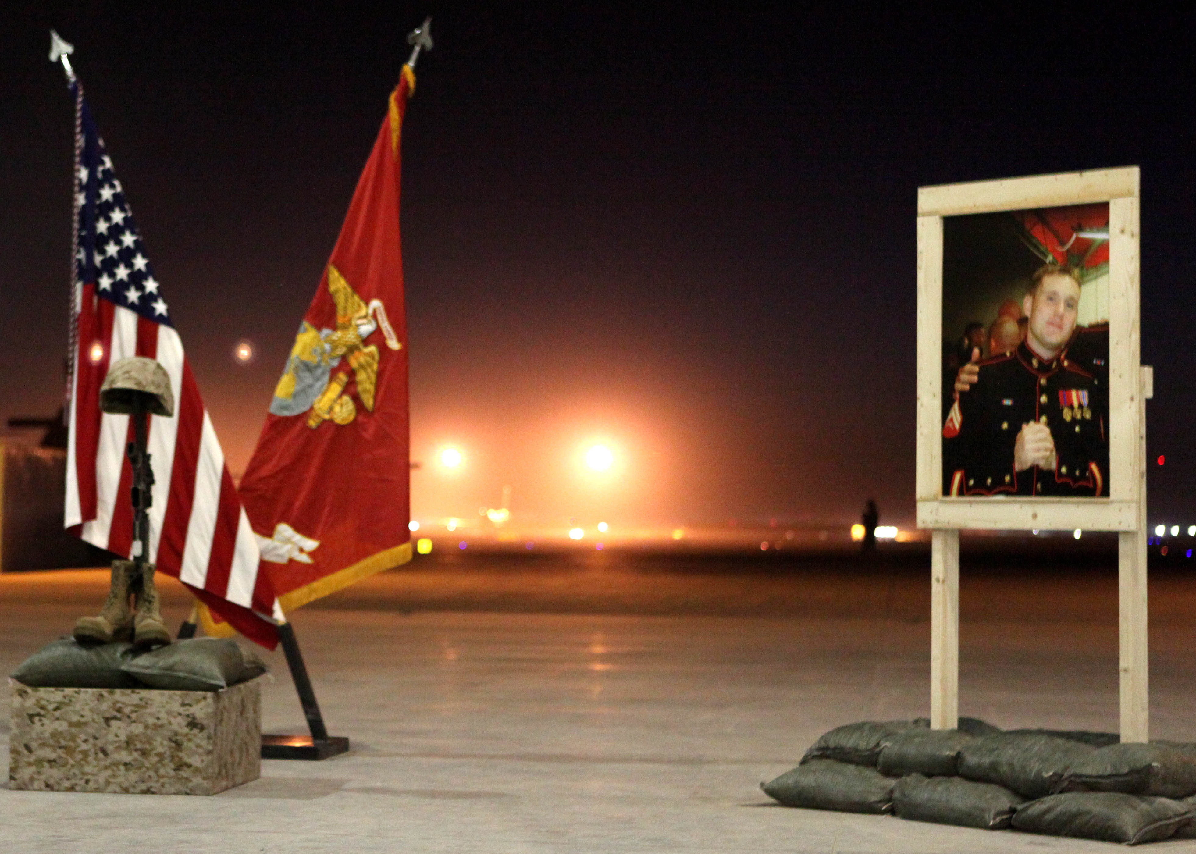 Marine involved in Article "September 2012 Camp Bastion raid"